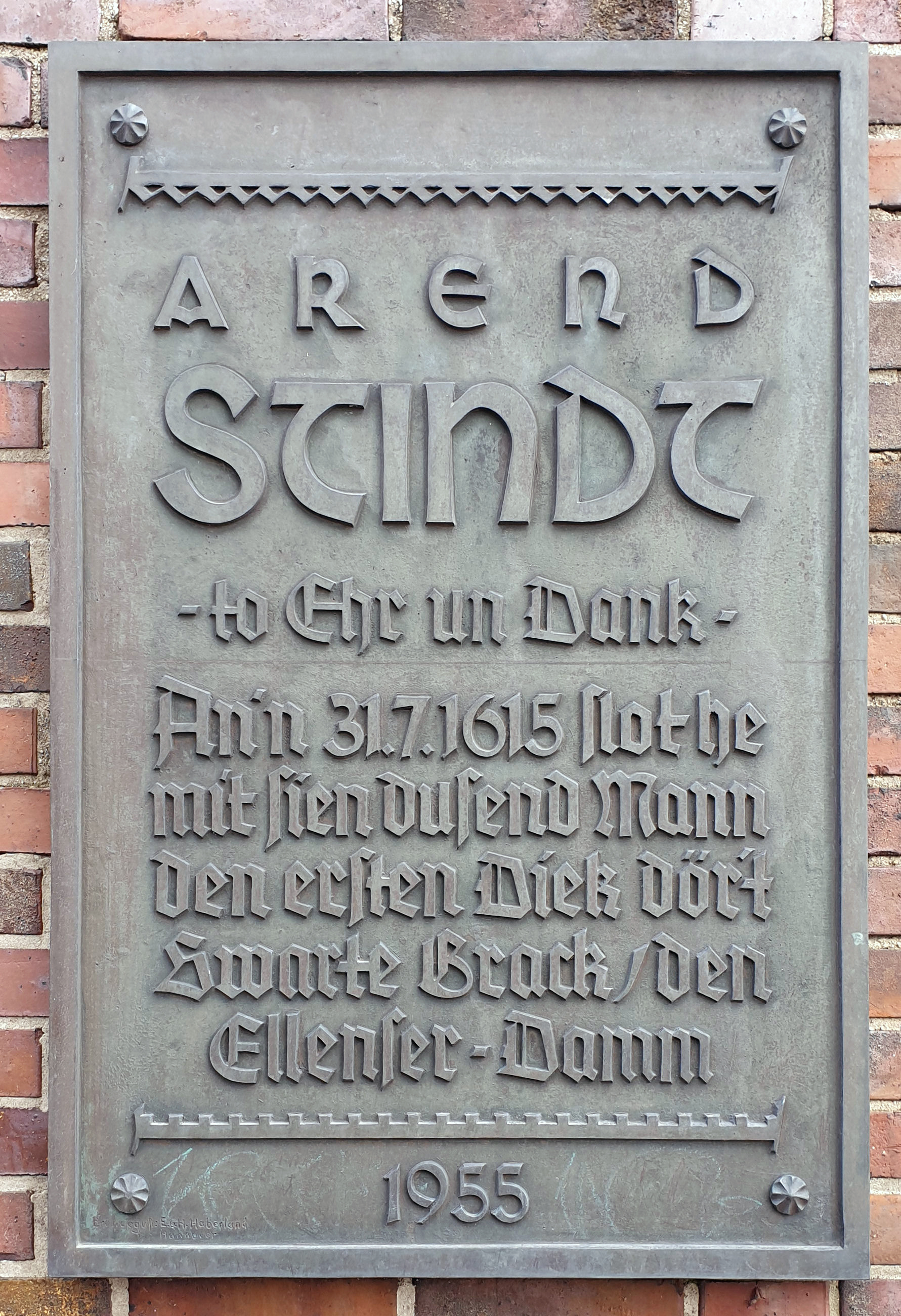 Memorial plaque, Arend Stindt, Dangast Hafen, Varel, Germany